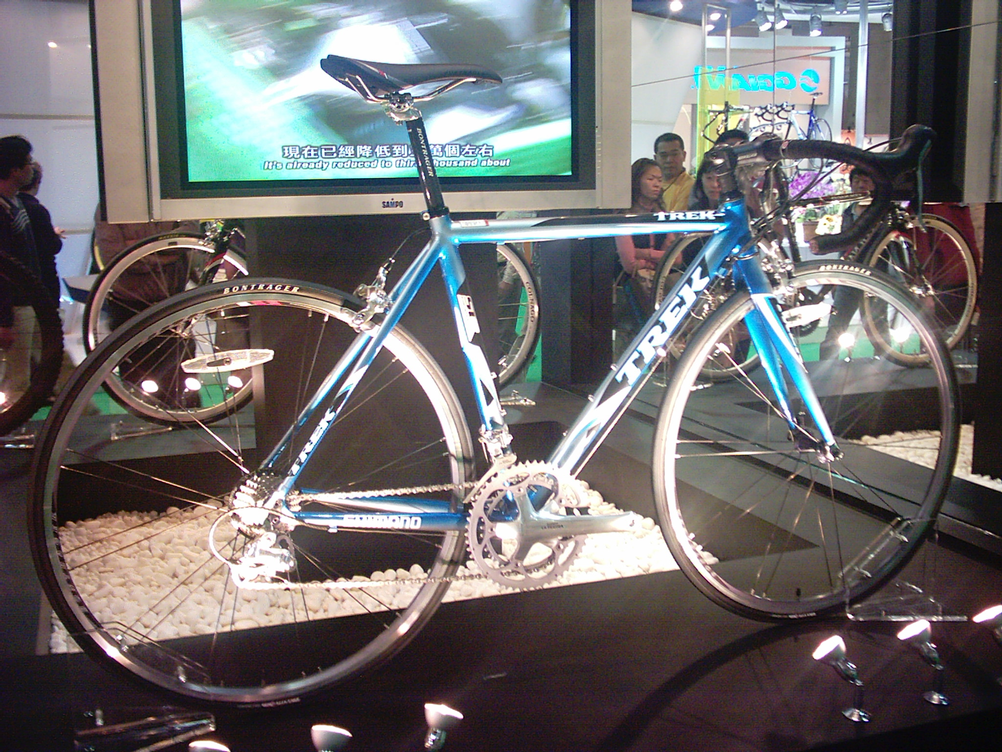 2006 Taipei Cycle Show: Full Bicycle Area at TWTC hall 3.